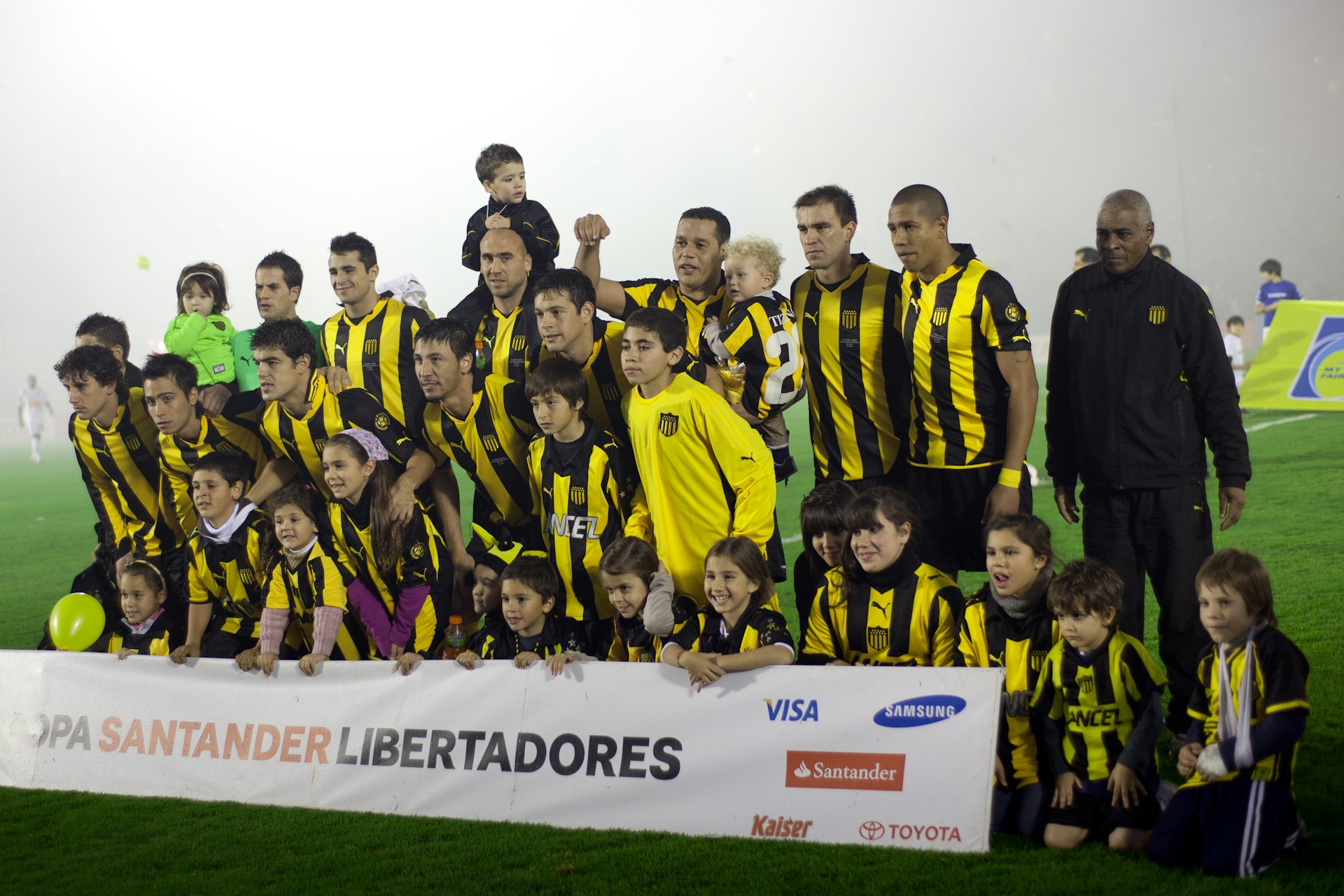 Peñarol's starting 11 for the first leg of the 2011 Copa Libertadores final in the Centenario Stadium of Montevideo. From left to right: Sosa, González, G. Rodríguez, D. Rodríguez, Valdez and Freitas (top), Corujo, Martinuccio, Aguiar, Olivera and Mier (bottom).